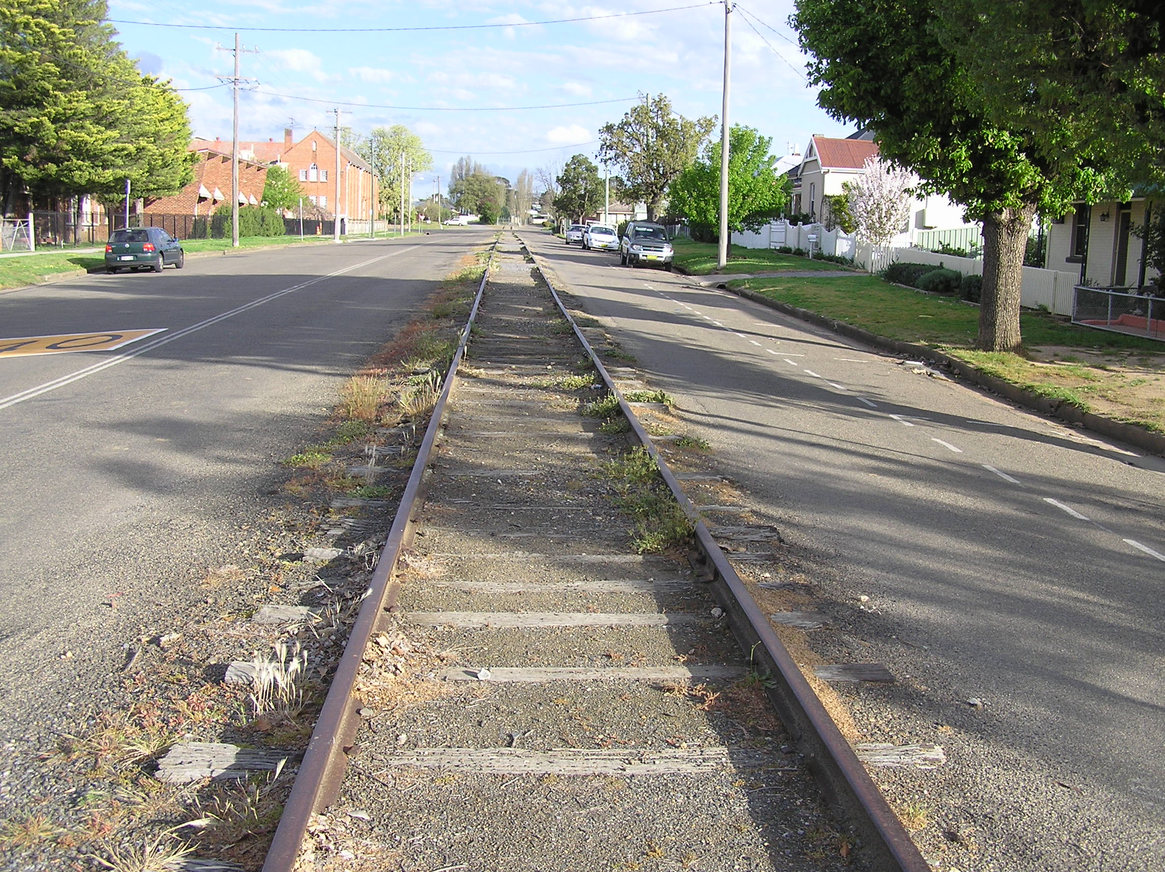 Yass Tram line in Dutton Street